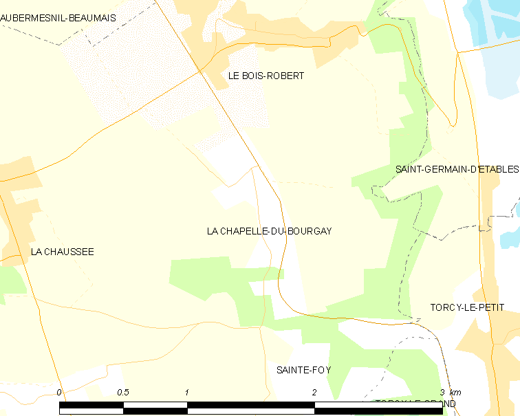 Map of French municipality La Chapelle-du-Bourgay